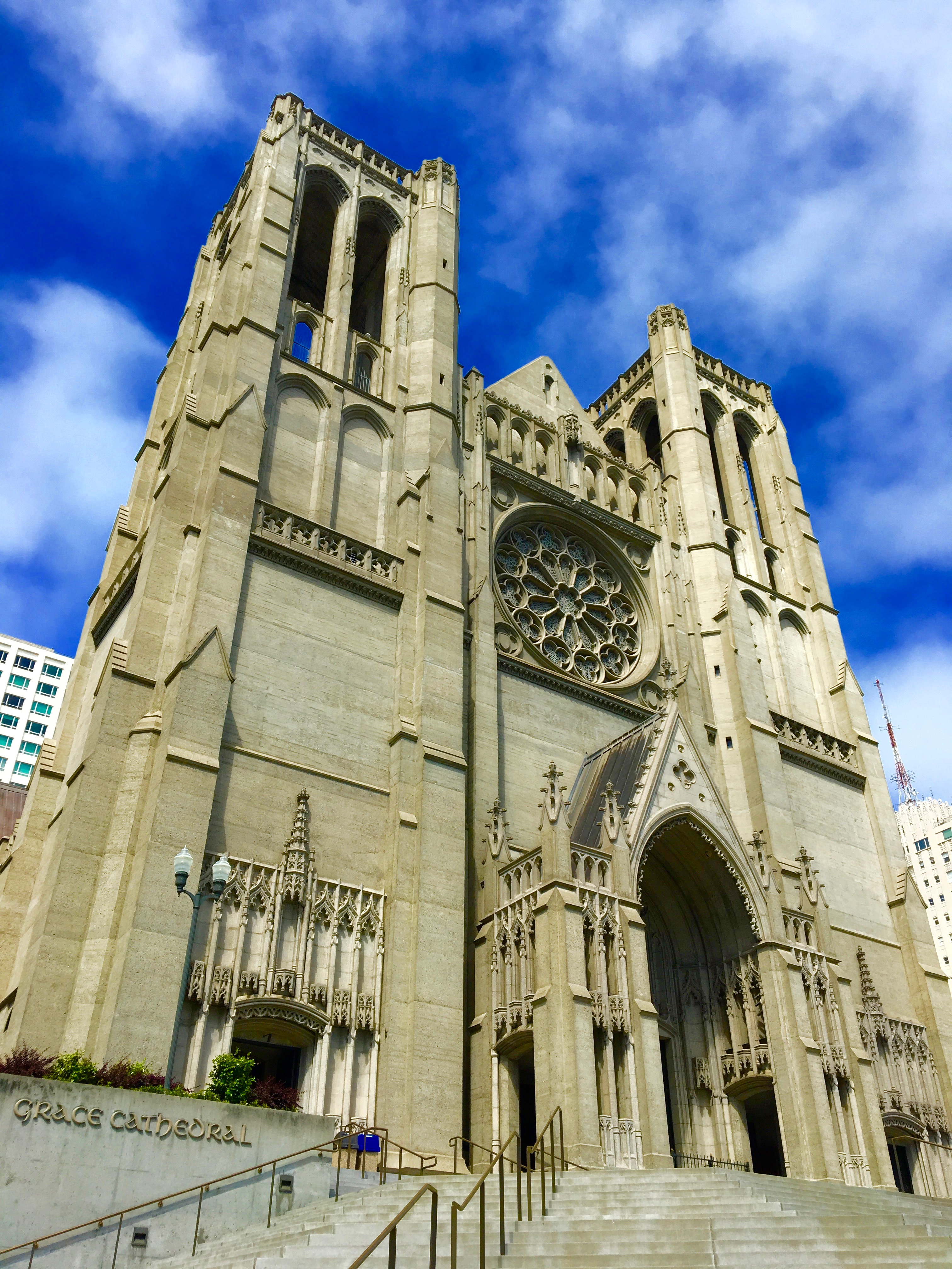 Grace Cathedral, August 2016